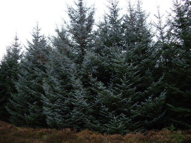 Silver firs In Pittenderich Wood.